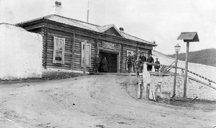 The entrance to the Akatuy jail